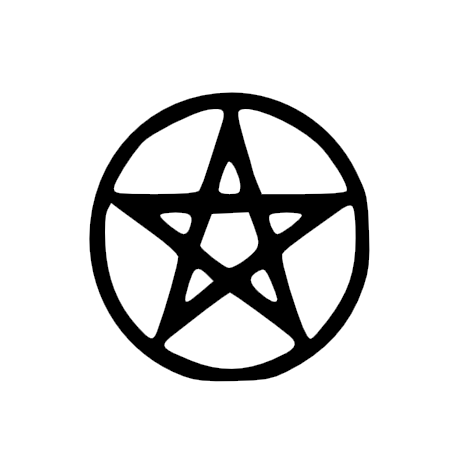 Symbol of Wicca.